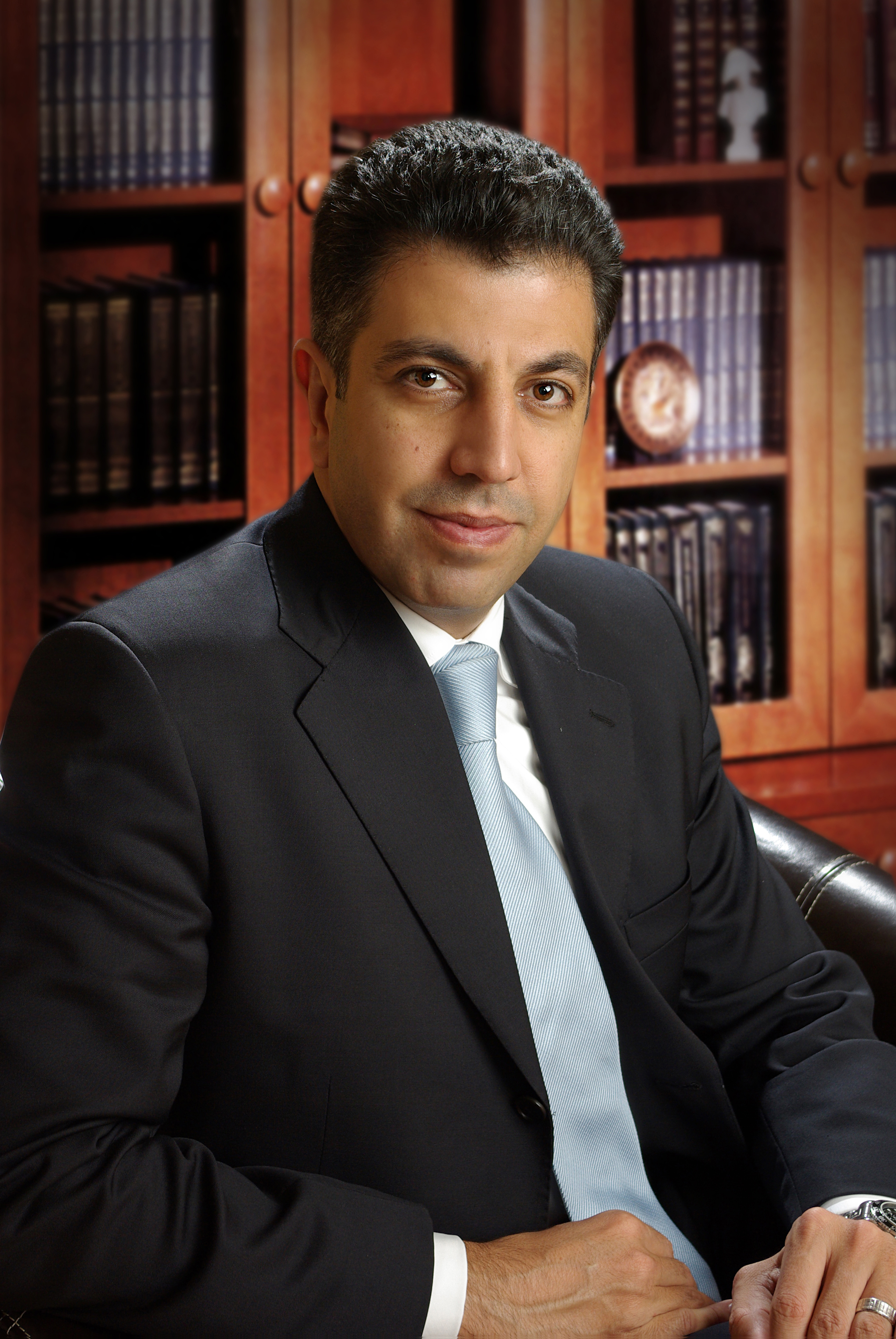 H.E. Dr. Ahmad Masa'deh